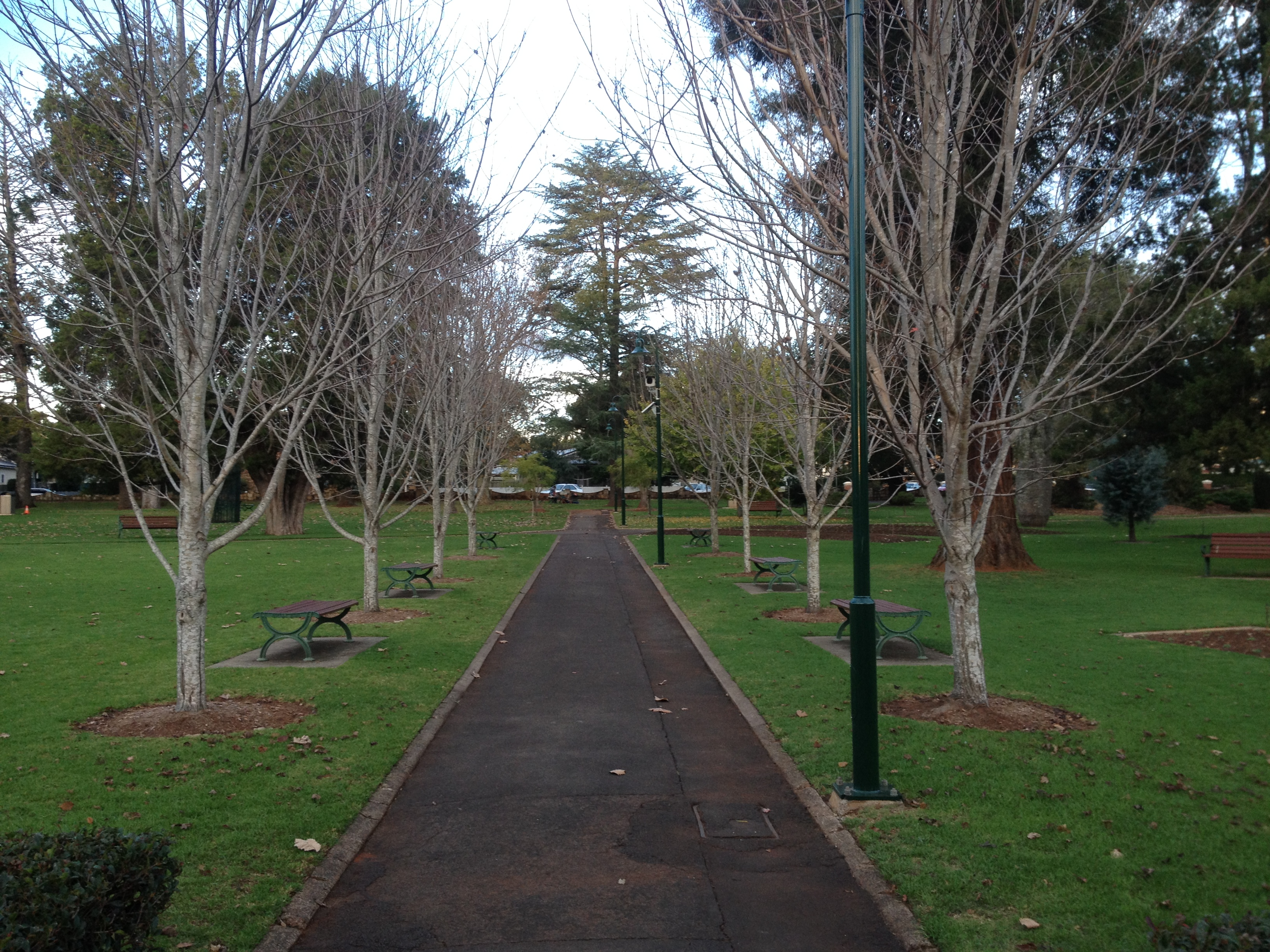 Queens Park Toowoomba, Queensland, Australia